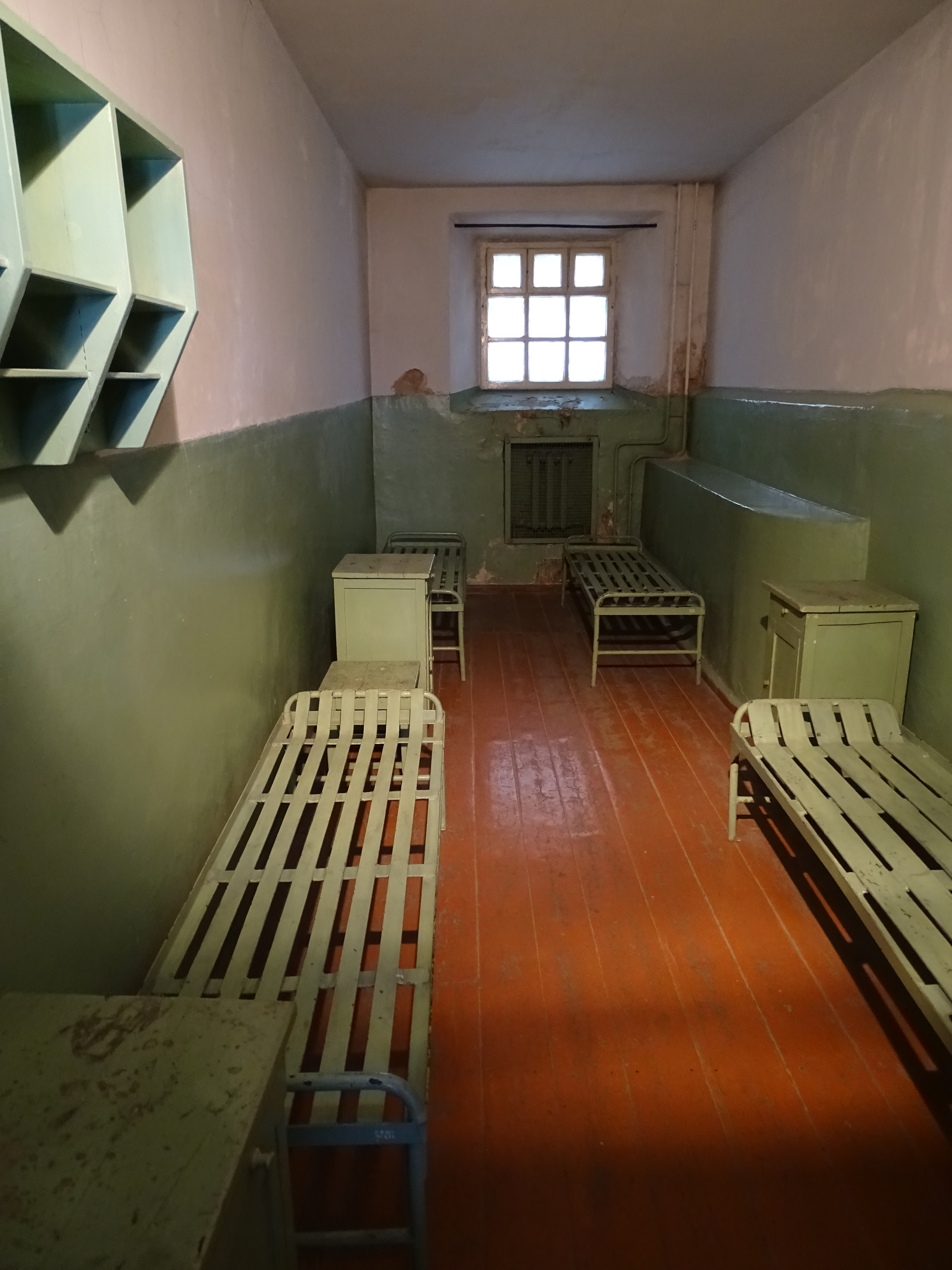 Prison Cell in Basement of Former KGB Headquarters - Museum of Genocide Victims - Vilnius - Lithuania - 02